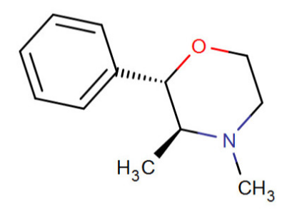 (2S,3S)-3,4-dimethyl-2-phenylmorpholine, a substituted phenmetrazine